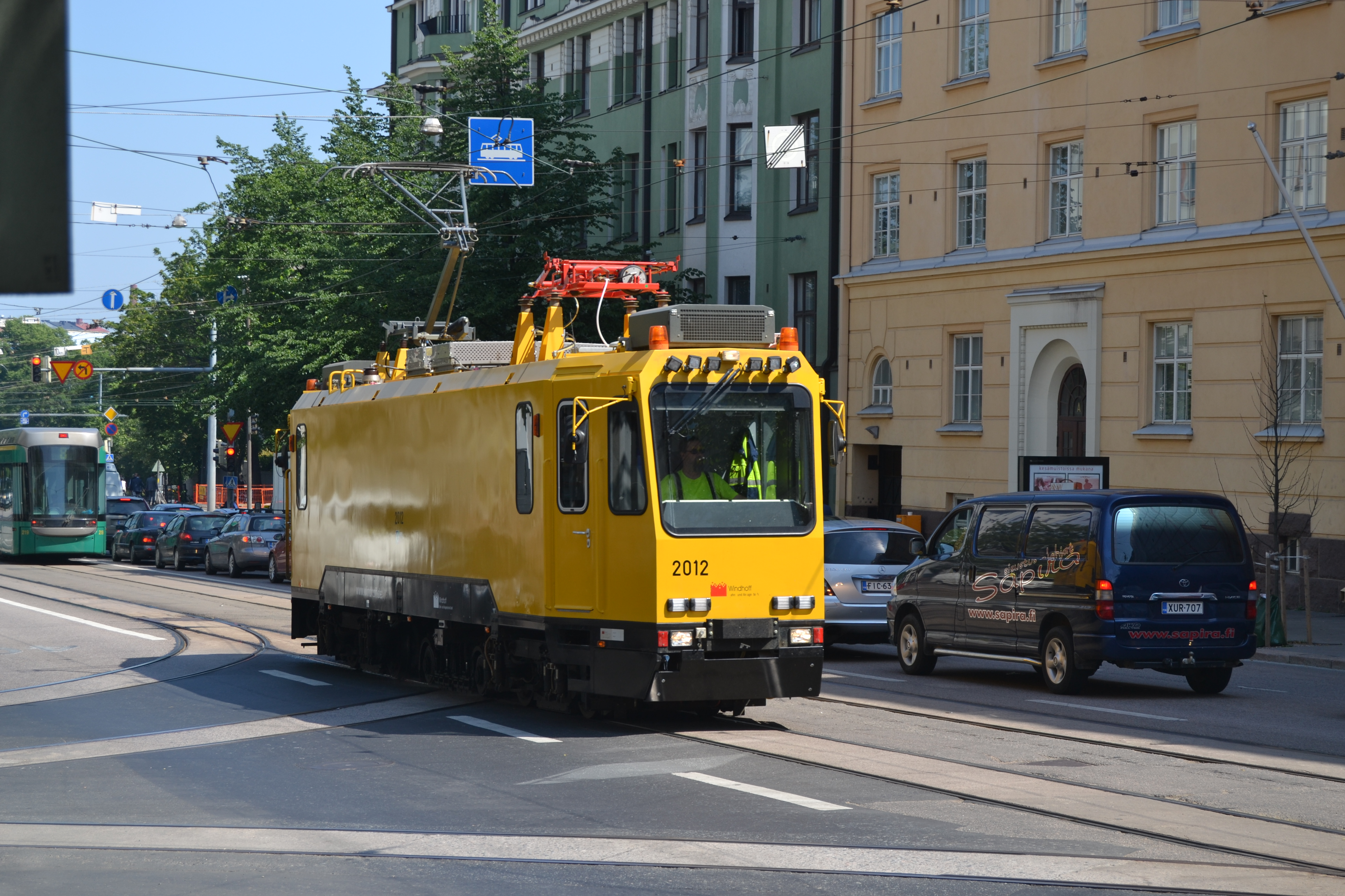 Multi purpose vehicle (tram) on Runeberginkatu in Helsinki